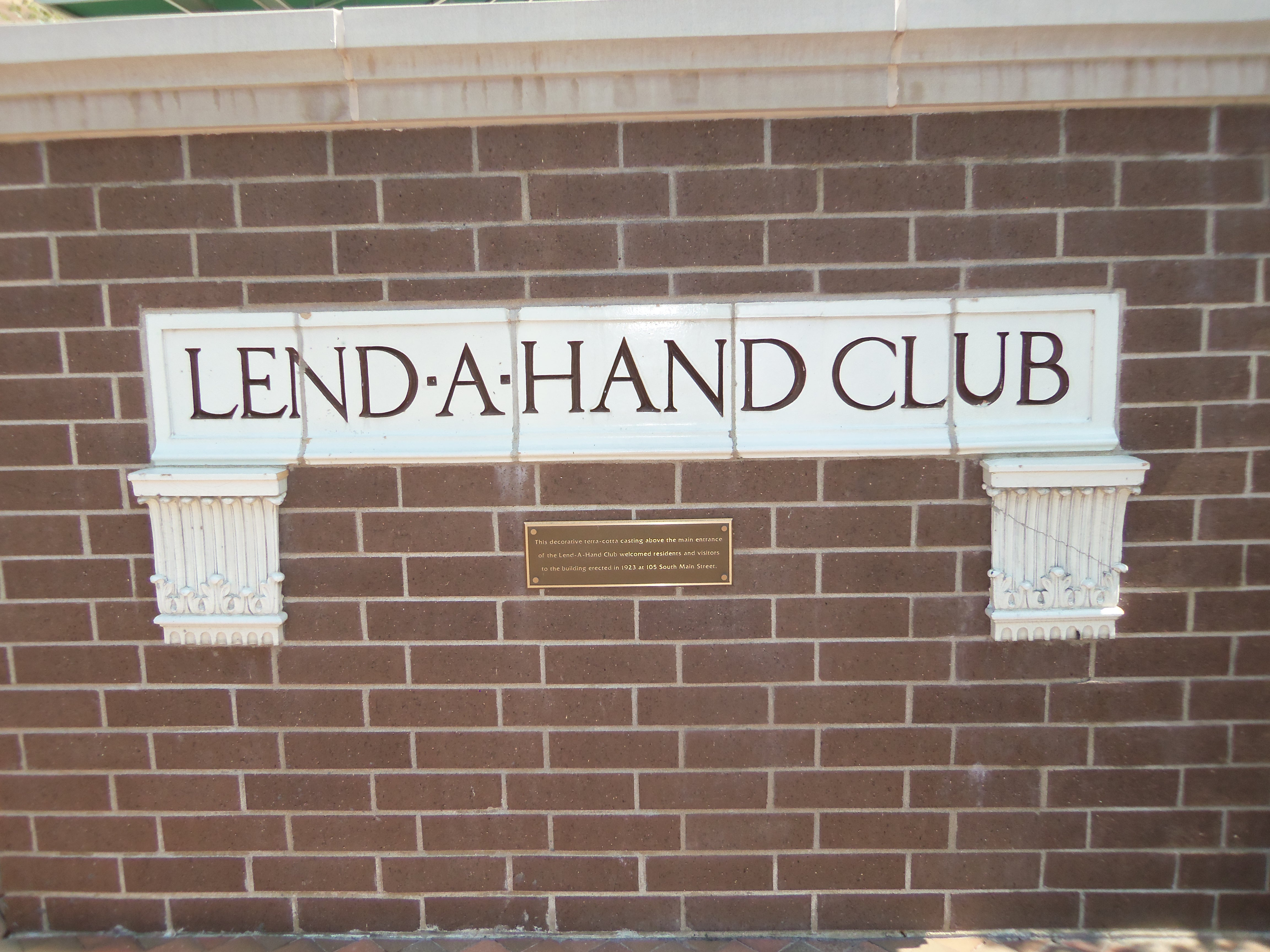 The sign from the former Lend-A-Hand building in downtown Davenport, Iowa. The building, which is listed on the National Register of Historic Places, has been torn down.